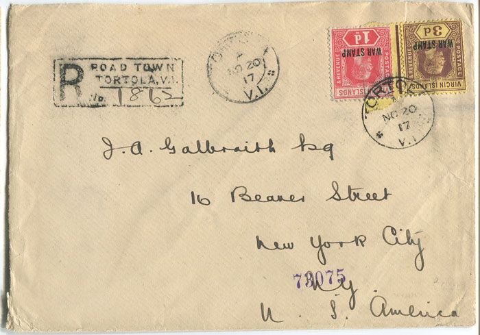 1917 British Virgin Islands registered cover with 1d and 3d stamps overprinted "War Tax"